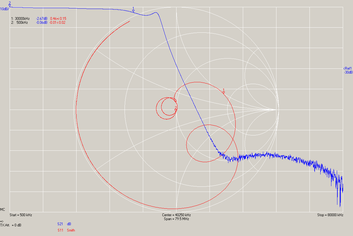 Transmission characteristic of a low-pass filter for a short-wave receiver.